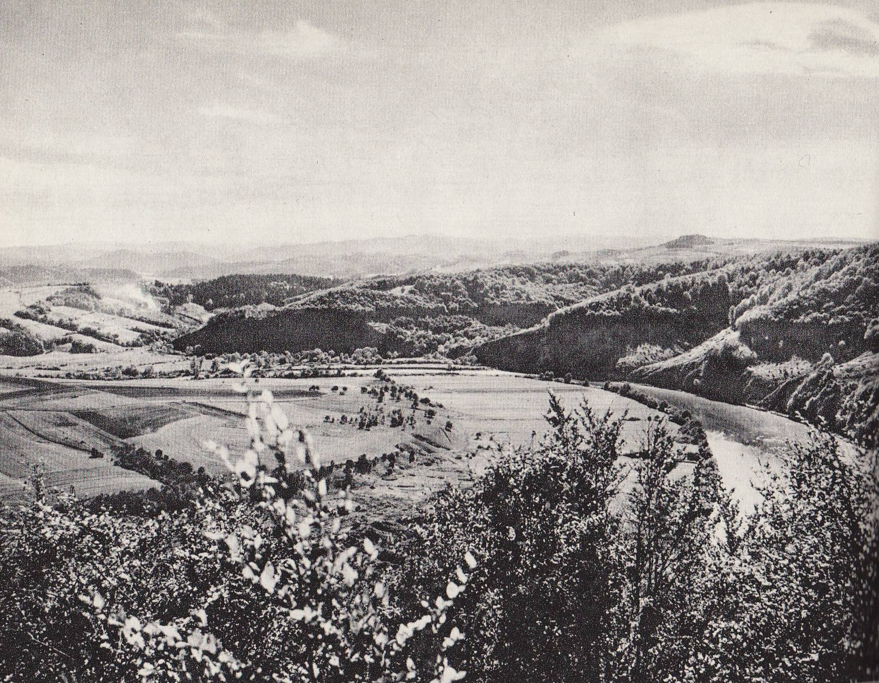 Area of Lake Solina during works at Solina Dam